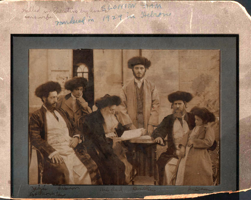 "Slonim family, some killed in 1929 Hebron Massacre, Identified by Shlomo Slonim, son of Eliezar Don Slonim. L-R: Rabbi Yaakov Yosef Slonim (married Chaya Tzvia Sarasohn); Eliezar Don Slonim, son of Rabbi Y. Y. Slonim, killed in Hebron Massacre in 1929; Rabbi Moteh bar Slonim, father of Rabbi Schneer Zalman Slonim; Mendel Slonim, brother of Rabbi Y. Y. Slonim (standing); Rabbi Schneer Zalman Slonim, father of Rabbi Y. Y. and Mendel Slonim; Yitzcak Levi Slonim, son of Rabbi Y. Y. Slonim who moved to South Africa."